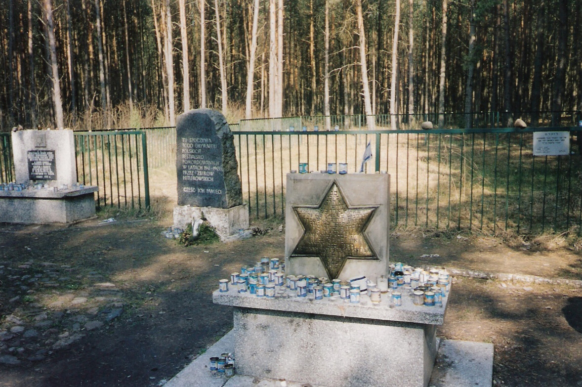 ticochin mass grave